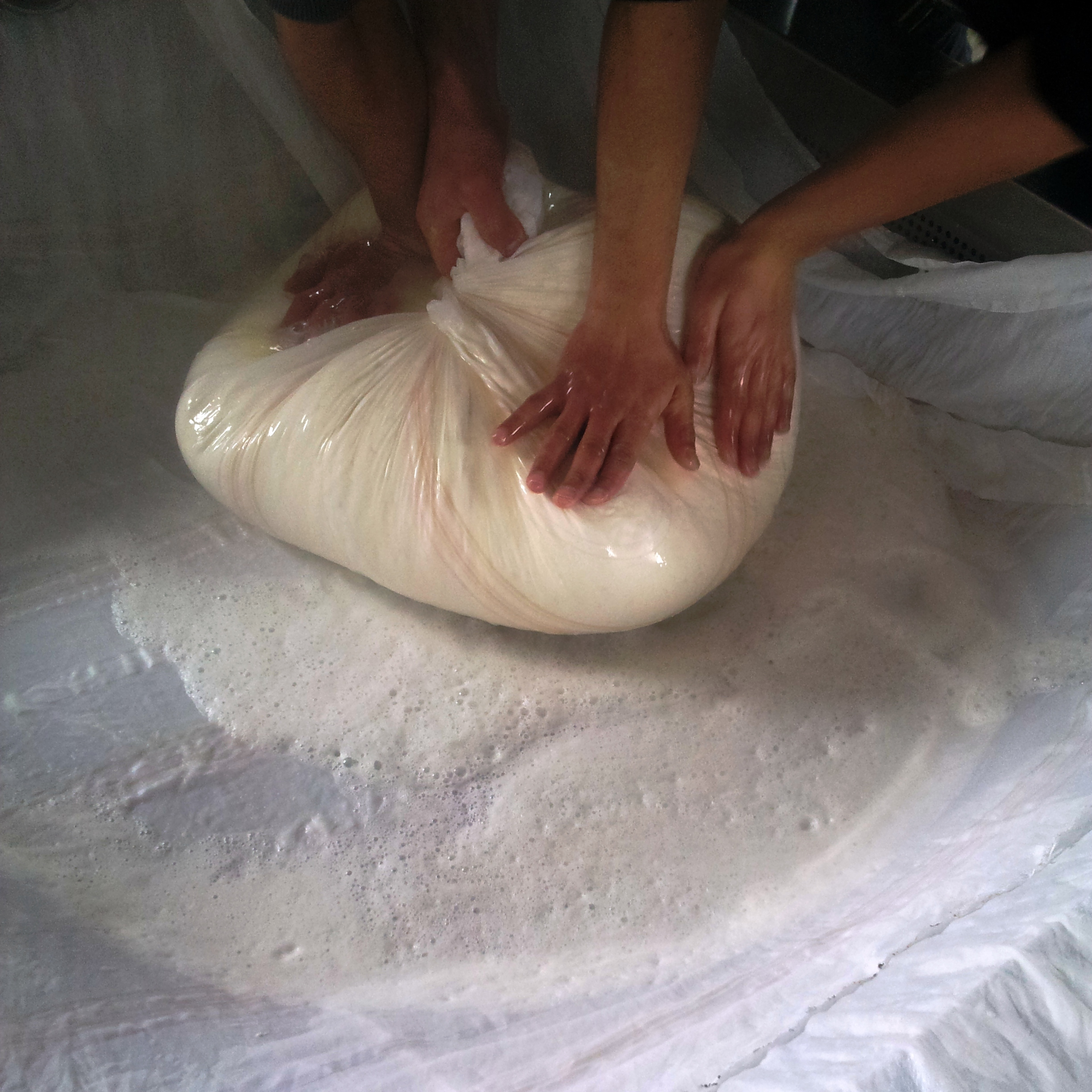 Sharri Cheese being compressed by hand to release the liquid remains